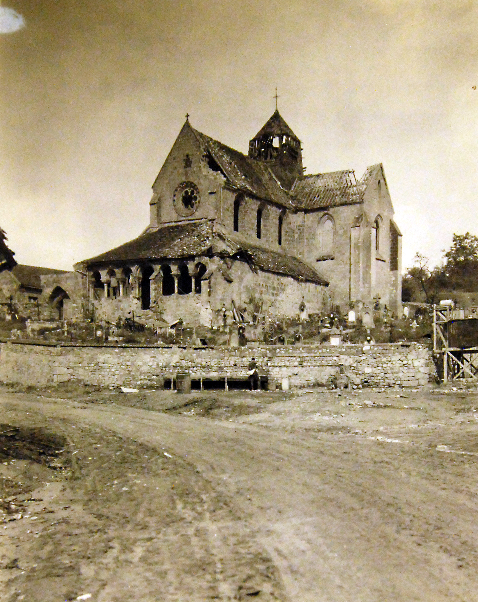 Lot-8296-6: American Expeditionary Forces, WWI. church at Mareuil-en-Dole, the town where the Office of the Division Quartermaster of the 77th Division was located. Behind this church, many of the men are buried, September 10, 1918. U.S. Army Signal Corps Photograph. Courtesy of the Library of Congress. (2016/12/02).